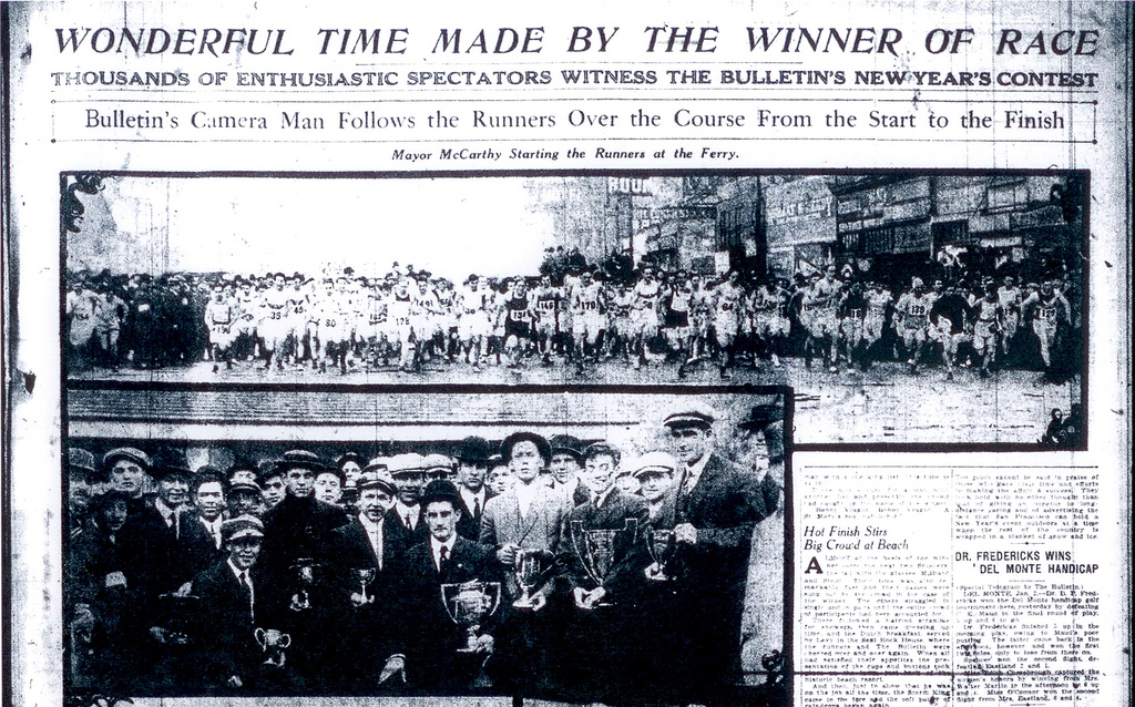 Front page of the San Francisco Bulletin 2 January 1912, reporting on the first "Cross City Race", since renamed Bay to Breakers